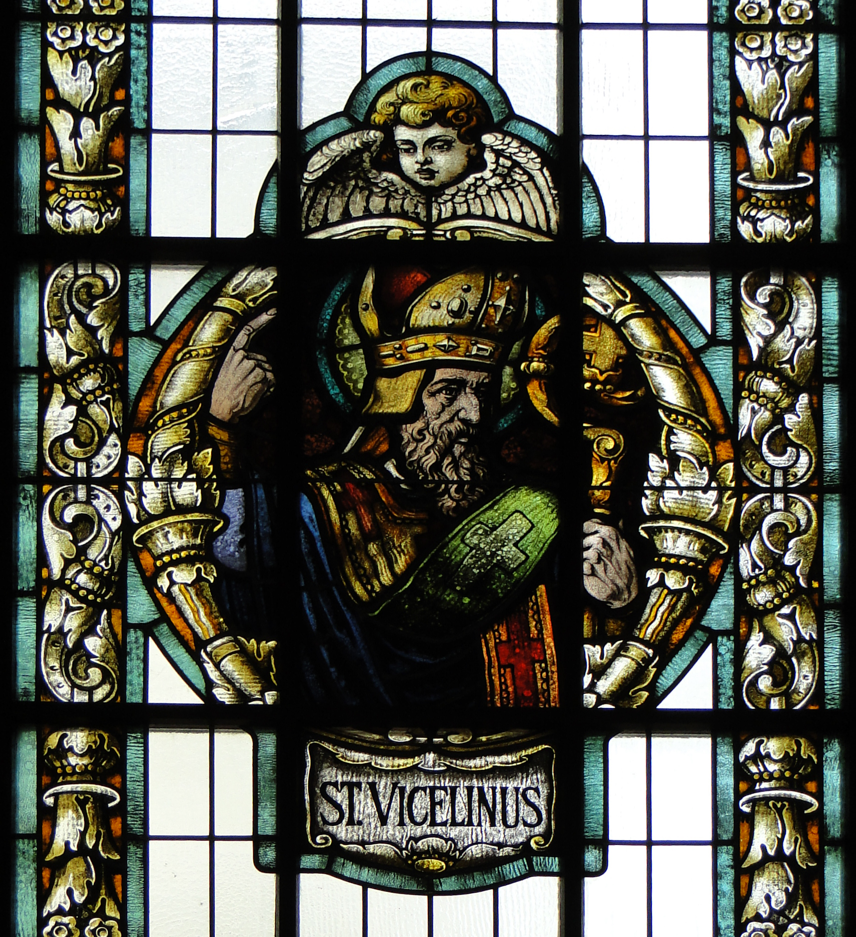 Stained glass window St. Vicelinus of Church St. Anna in Schwerin, Mecklenburg-Vorpommern, Germany